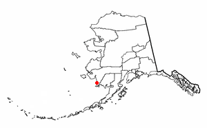 Adapted from Wikipedia's AK borough maps by Seth Ilys.